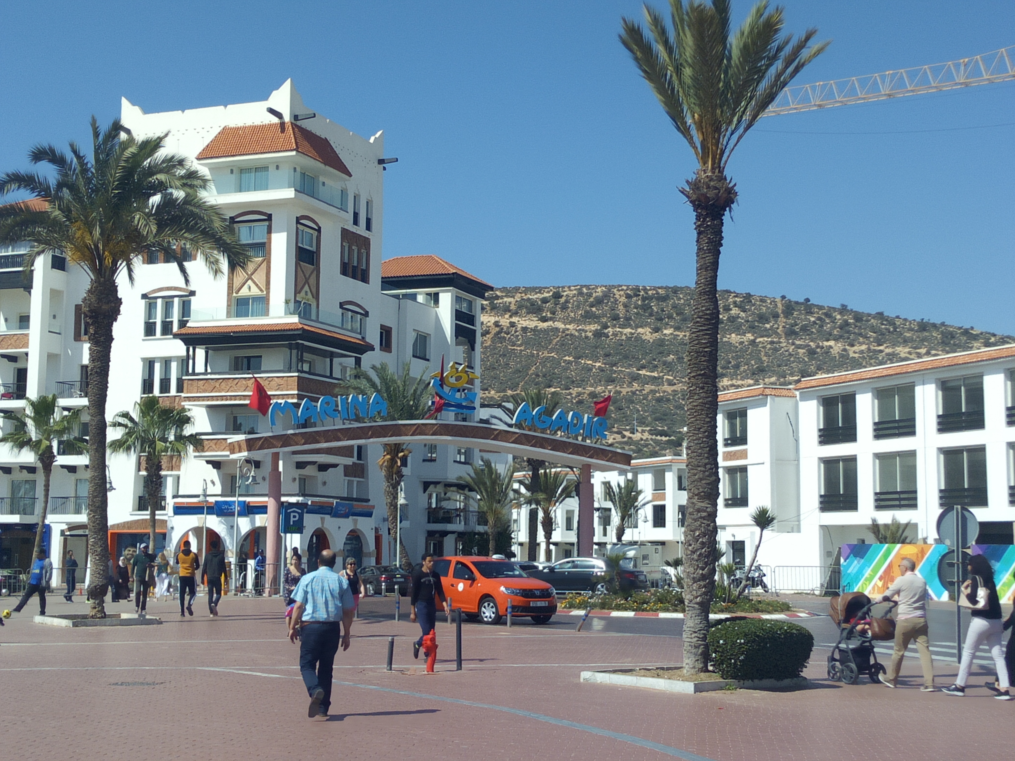 Marina Agadir by AmalouMed This is an image with the theme "Africa on the Move or Transport" from: Morocco